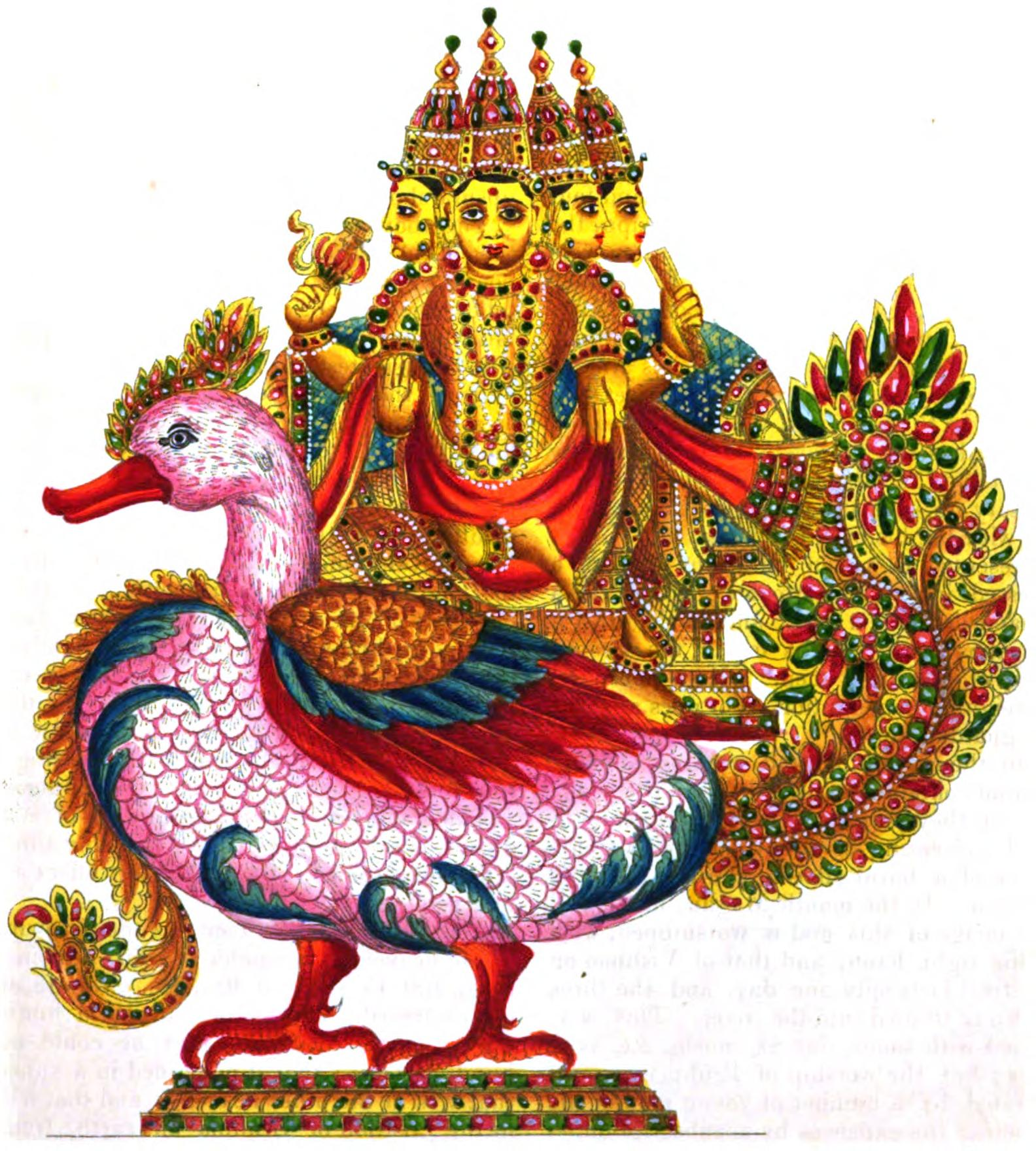 Brahma